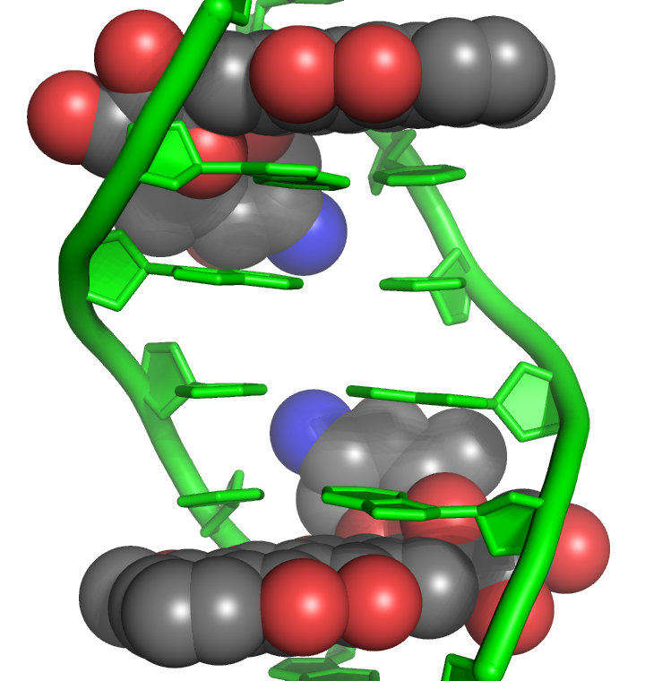 Cartoon diagram of two doxorubicin molecules (shown as space-filling models) intercalating a strand of DNA. Created using PyMOL ( and GIMP.